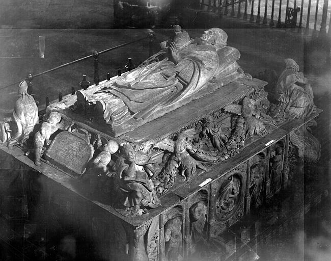 Cardinal Cisneros' tomb in Alcalá de Henares